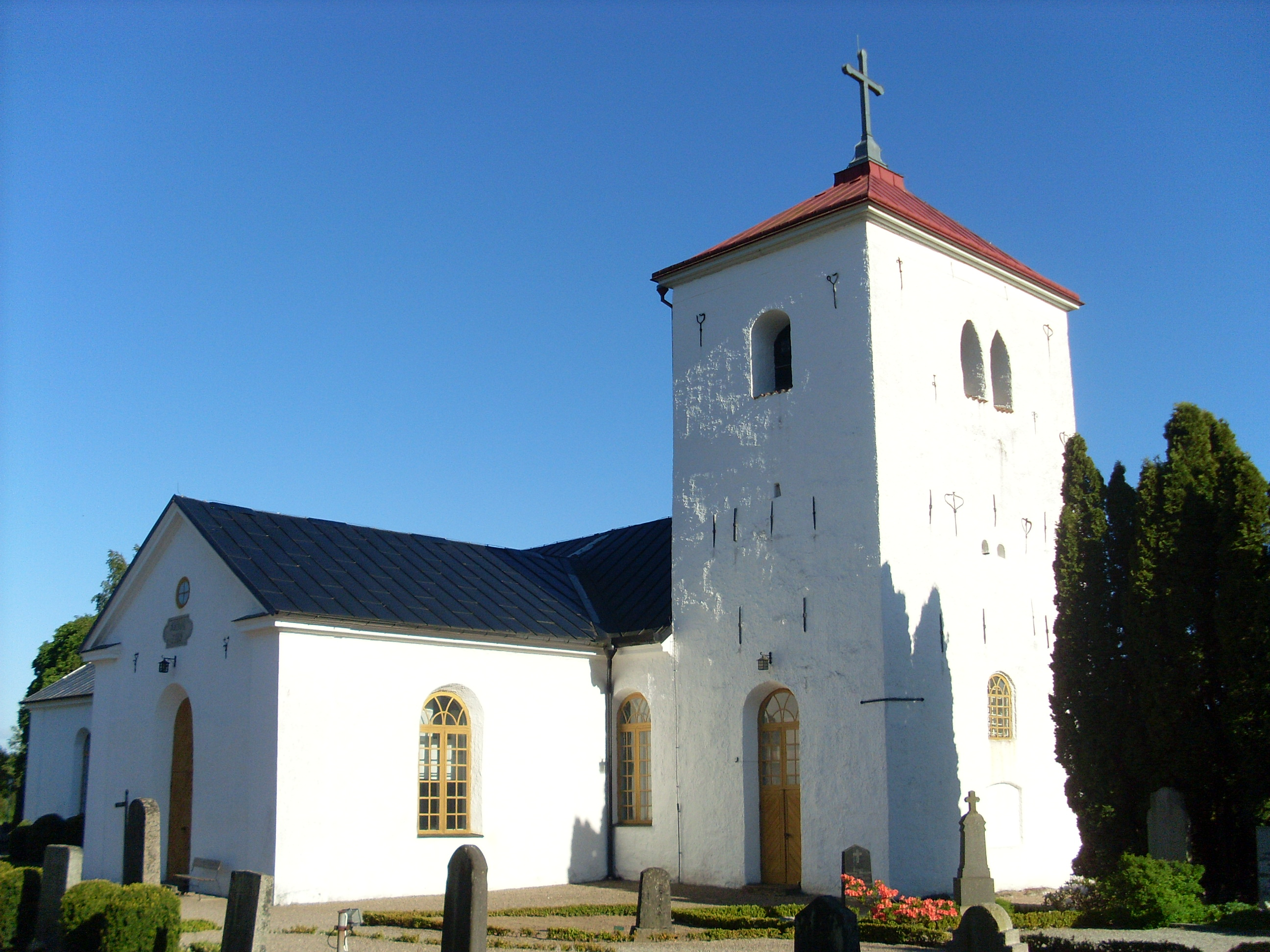 The church of Riseberga in southern Sweden